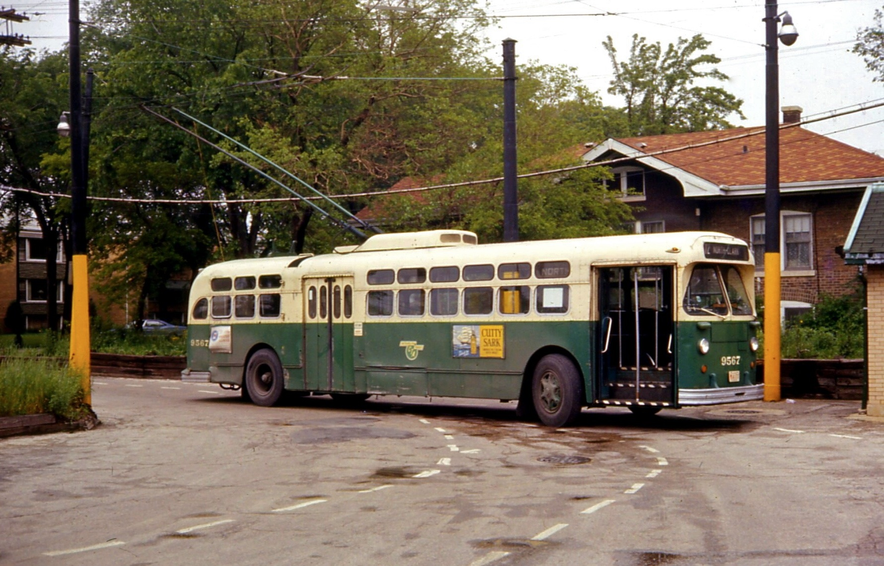 Chicago trolley bus 9567, a 1951/52 Marmon-Herrington TC49, in the off-street loop located at the northeast corner of North Avenue & Narragansett Avenue, at the west end of route 72-North Avenue, in 1968. Chicago's trolley bus system closed in 1973, but 124 Marmon-Herringtons from the Chicago Transit Authority's trolley bus fleet (not including No. 9567) were then sold to Guadalajara, Mexico, for use on a new trolleybus system that opened there in late 1976.